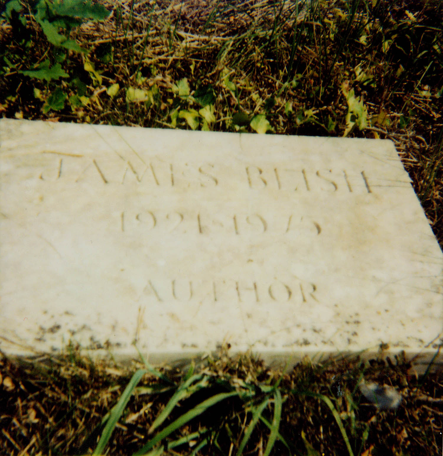 Gravestone of James Blish, Holywell Cemetery, Oxford, England.